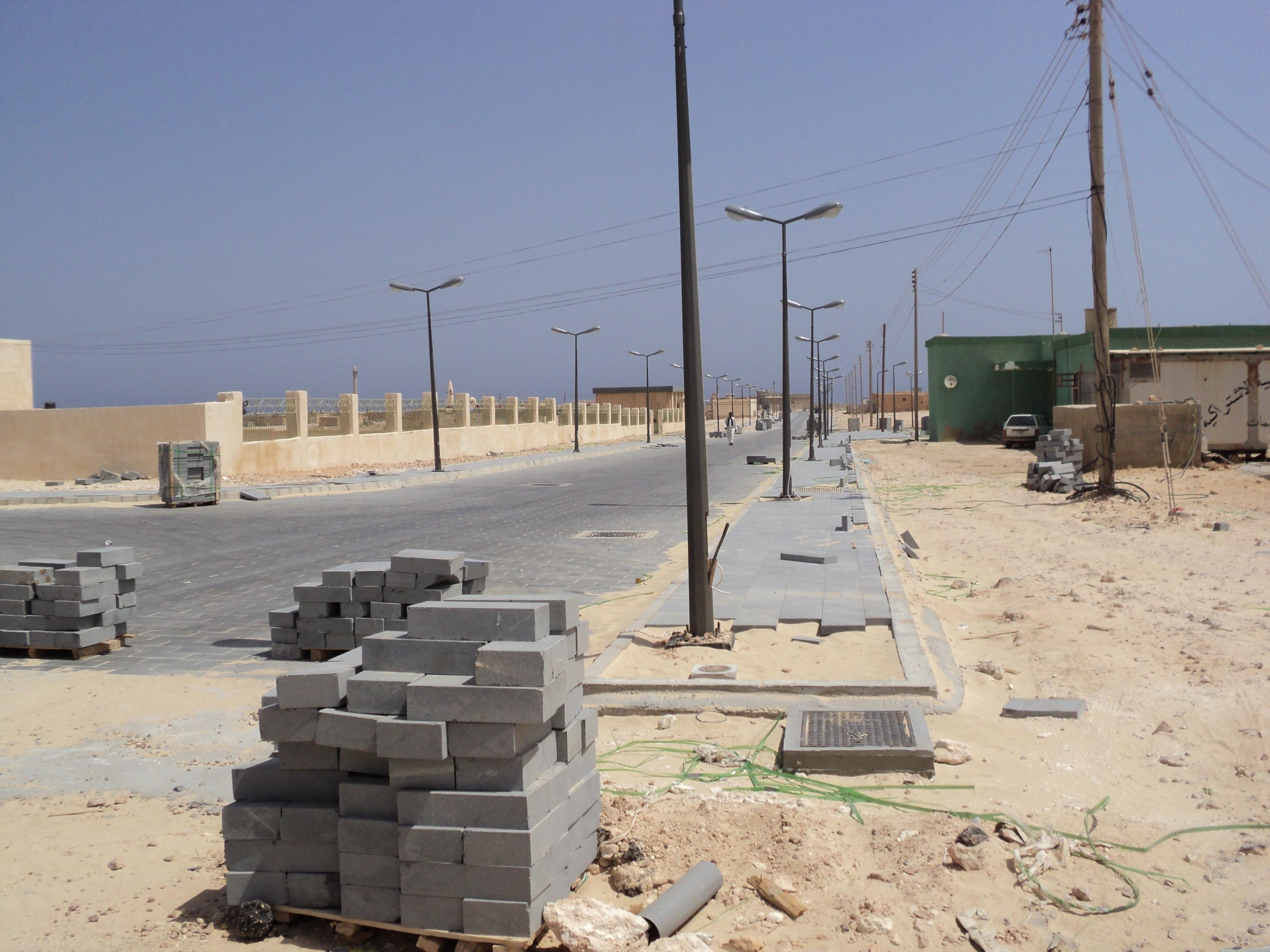 The Libyan village of Bardia under development.